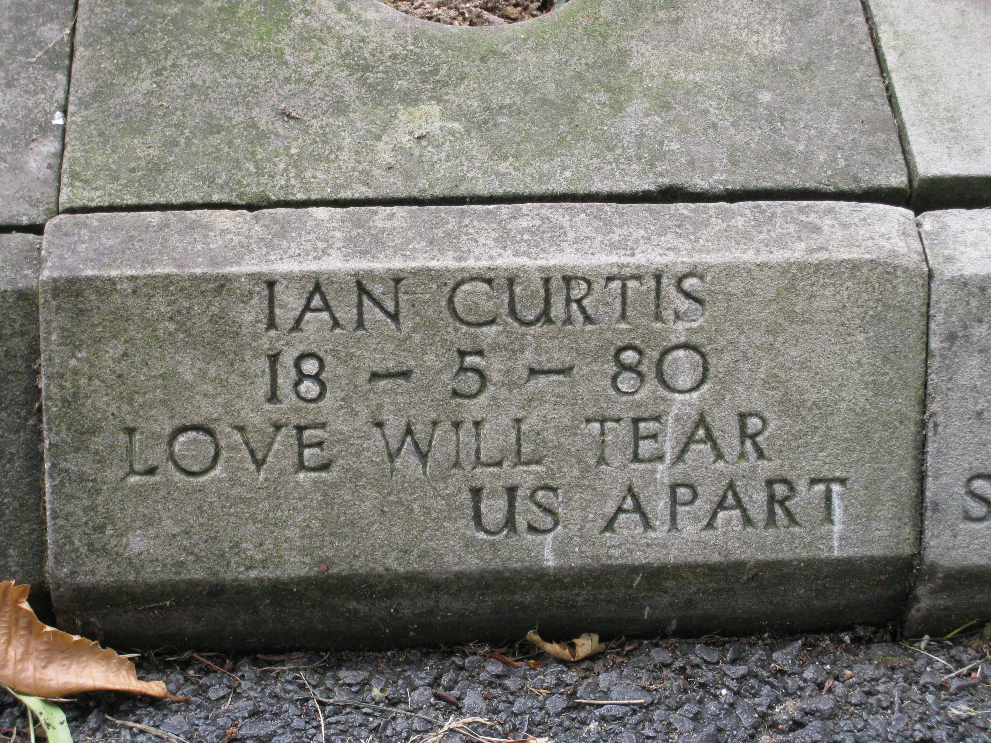 After his suicide, on the brink of stardom, Ian Curtis was cremated and put in a small grave - one among many thousands at Macclesfield Cemetery, and not easy to find. This was a sad ending for someone with such great songwriter gifts. Don't walk away in silence...